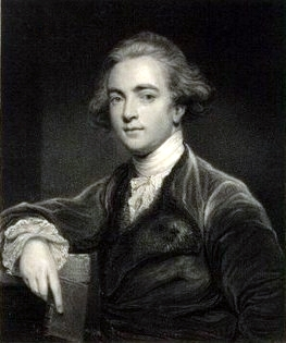 Portrait of Sir William Jones (1746-1794)